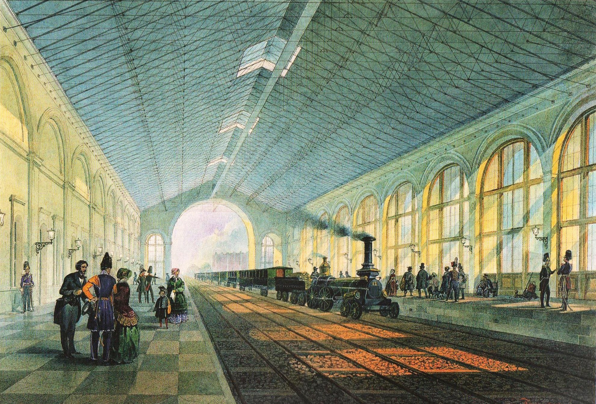 Nikolaevsky rail terminal. Saint-Petersburg